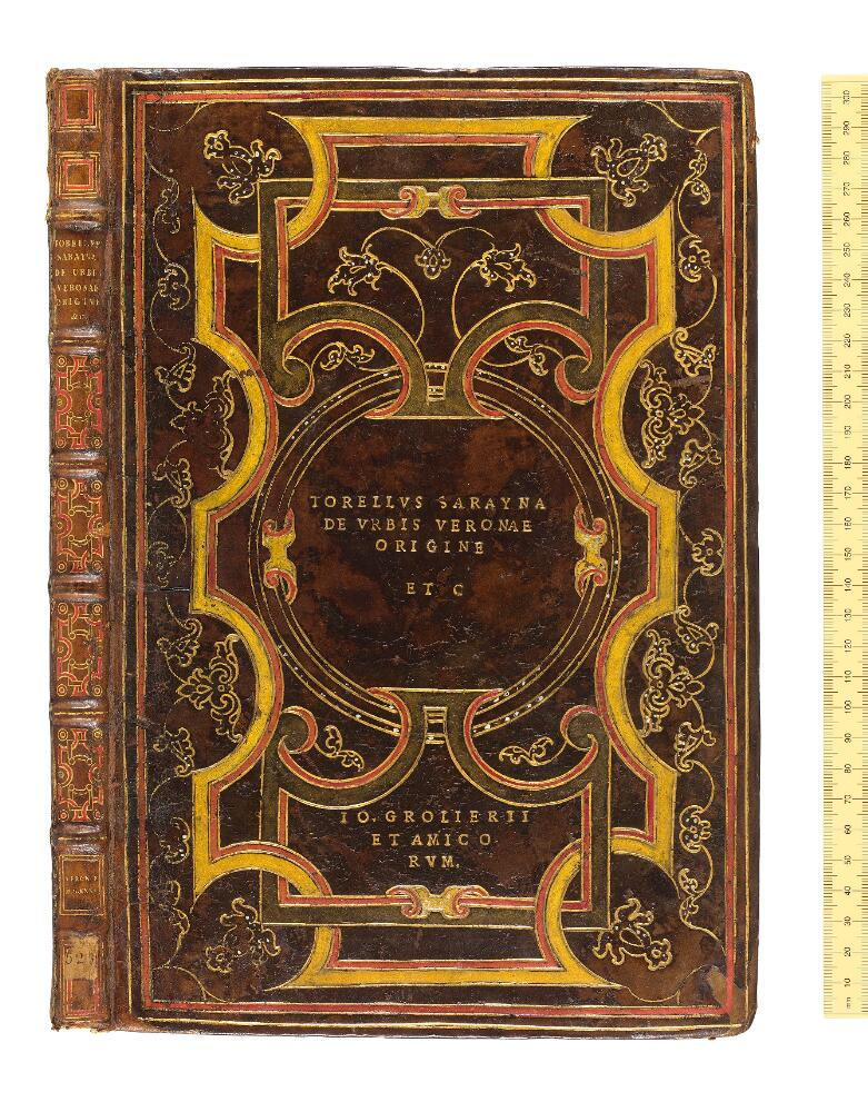 The greatest collector of the Renaissance? French (Paris), mid 16th-century. Bound in brown calfskin, gold-tooled with elaborate interlaced design painted yellow, pink and green, with circular cartouche and open tools stippled in white. One of many books collected by Jean Grolier (1489-1565), arguably the greatest bibliophile of the Renaissance. Grolier patronised many of the best binders in Paris, such as the craftsman known as 'Cupid's Bow Binder' (named from one of his distinctive tools). Grolier's Latin ownership inscription (translated as: 'the book of Jean Grolier and of his friends') is near the foot of the cover, indicating that his books were accessible to Grolier's intimate circle of friends.